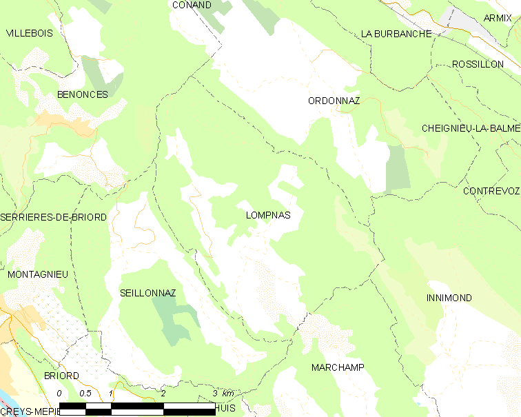 Map of French commune: Lompnas Map commune FR insee code 01219.png